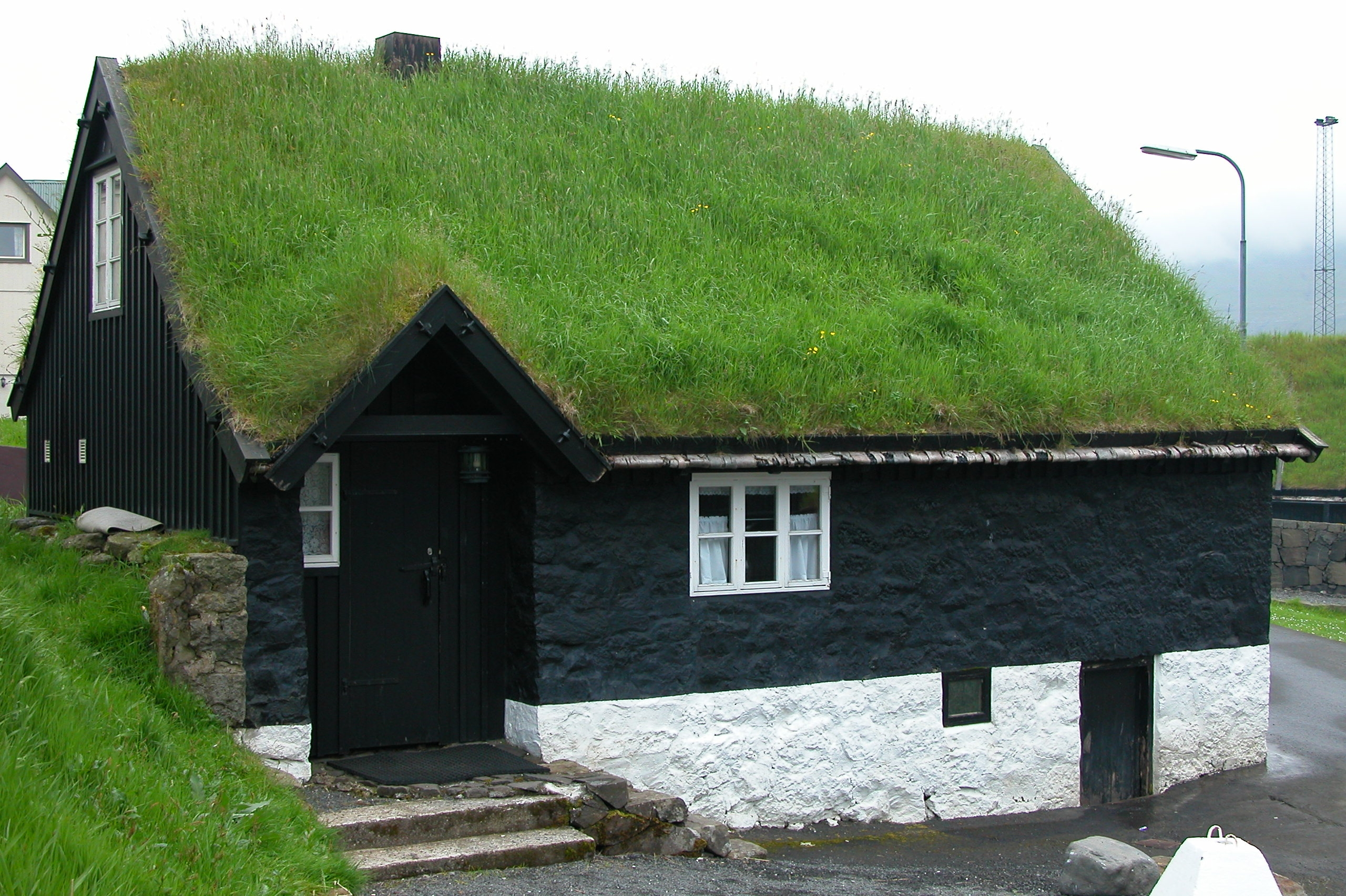 Norðragøta on Eysturoy, Faroe Islands. The name of the old house is hjá glyvra Hanusi.